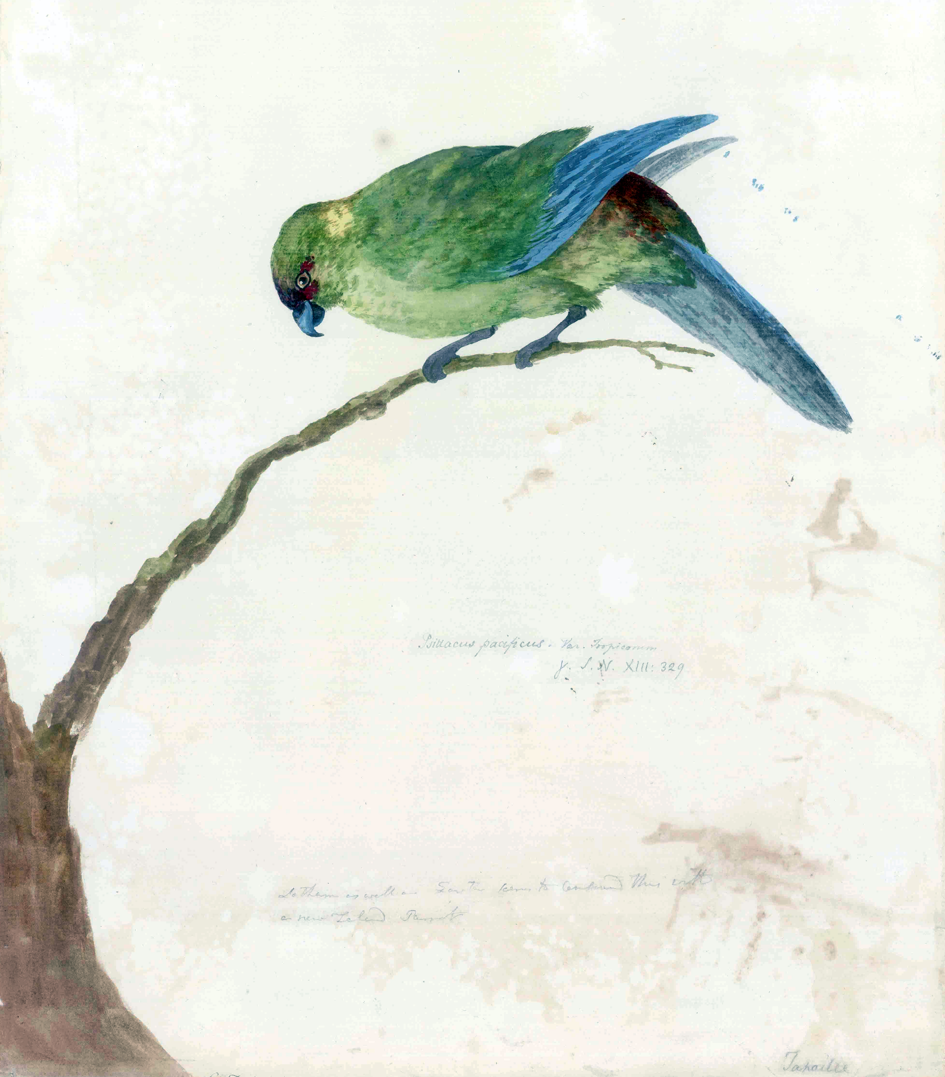 Ff. 47. Watercolour painting by George Forster annotated 'Psittacus pacificus'. Made during Captain James Cook's second voyage to explore the southern continent (1772-75).